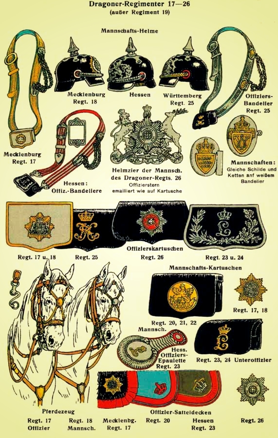 cavalry uniforms